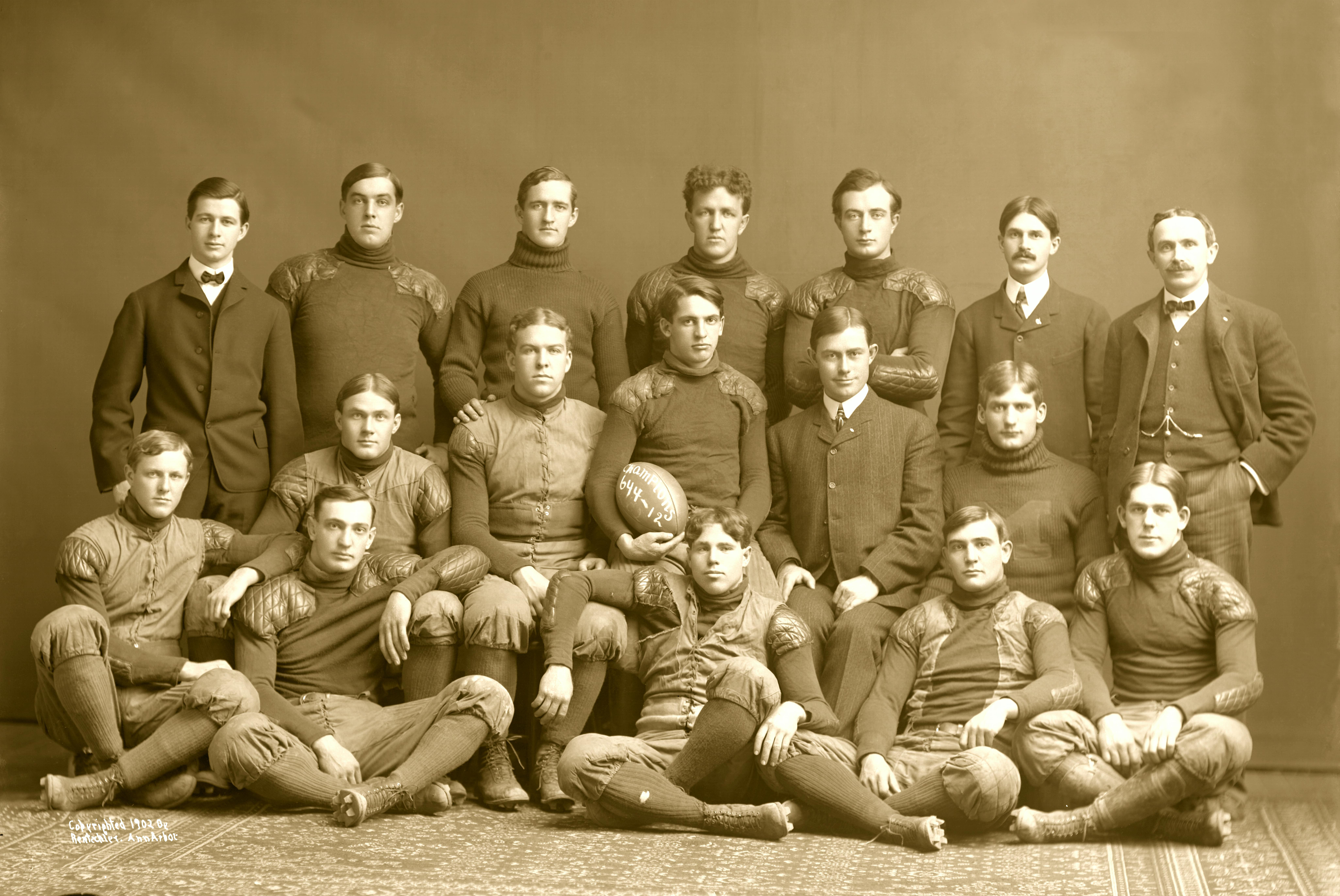 Photograph of 1902 Michigan Wolverines football team. Back row (left to right): Archibald Smith (student manager), Charles B. Carter (right guard), Paul J. Jones (fullback), George W. Gregory (center), Dan McGugin (left guard), Charles A. Baird (Graduate Director of Athletics), Keene Fitzpatrick (trainer). Middle row (left to right): Joseph Maddock (right tackle), James E. Lawrence (fullback), Harrison "Boss" Weeks (quarterback and captain), Fielding H. Yost (head coach), Albert E. Herrnstein (right halfback). Front row: William C. "King" Cole (right end, left tackle), Curtis Redden (left end), Willie Heston (left halfback), Everett Sweeley (right end), Herb Graver (left end, quarterback, fullback, left halfback).